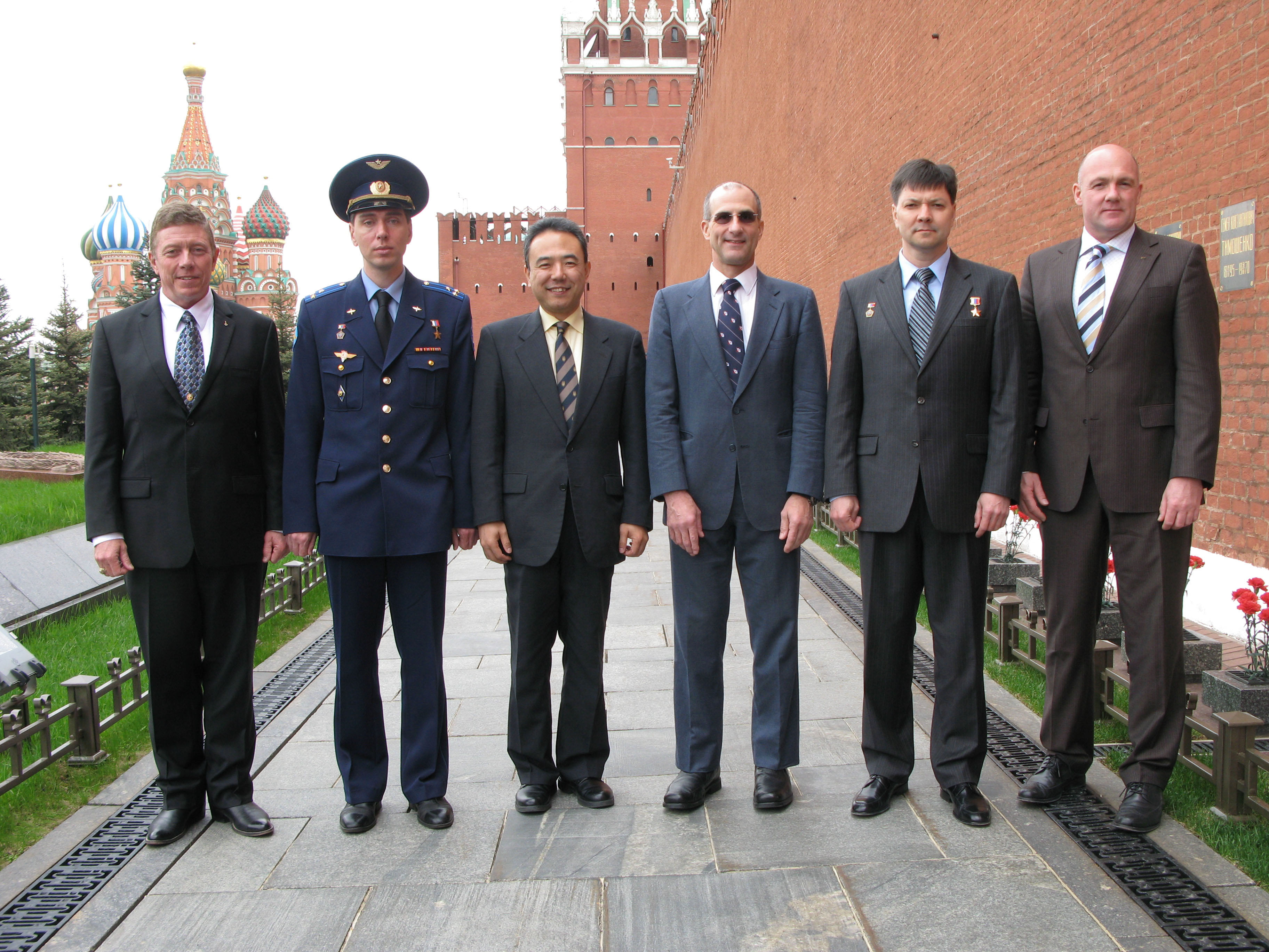 The prime and backup crew members for Expedition 28 to the International Space Station pose for pictures at the Kremlin Wall in Red Square May 16, 2011 after conducting traditional activities for the launch of the prime crew June 8 (Kazakhstan time) on the Soyuz TMA-02M spacecraft from the Baikonur Cosmodrome in Kazakhstan to the complex. From left to right are NASA astronaut Mike Fossum, prime crew flight engineer; prime Soyuz commander Sergei Volkov, Russian cosmonaut; Japan Aerospace astronaut Satoshi Furukawa, prime crew flight engineer, NASA astronaut Don Pettit, backup flight engineer; backup Soyuz commander Oleg Kononenko, Russian cosmonaut; and European Space Agency astronaut Andre Kuipers, backup flight engineer.